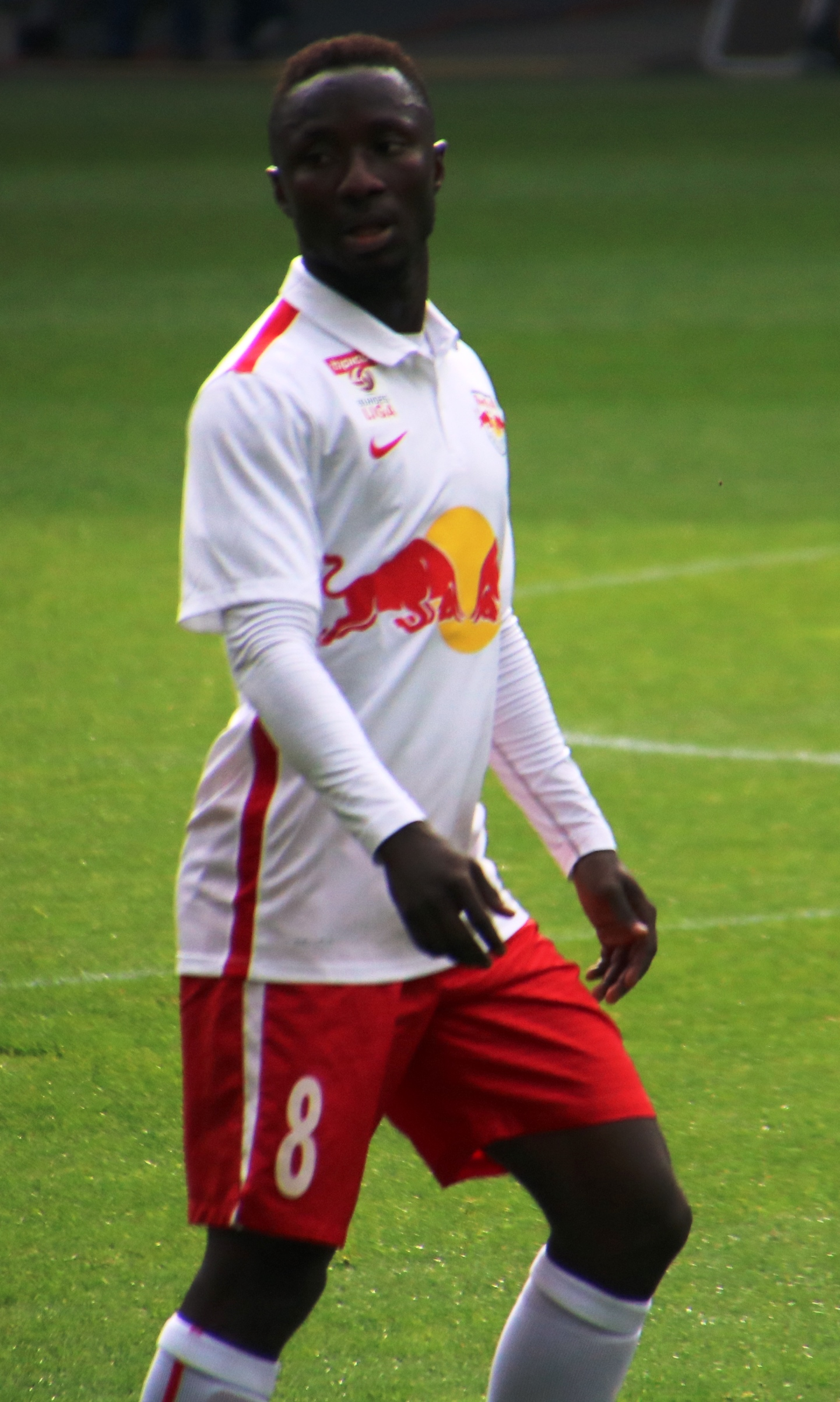 league match Austrian Bundesliga